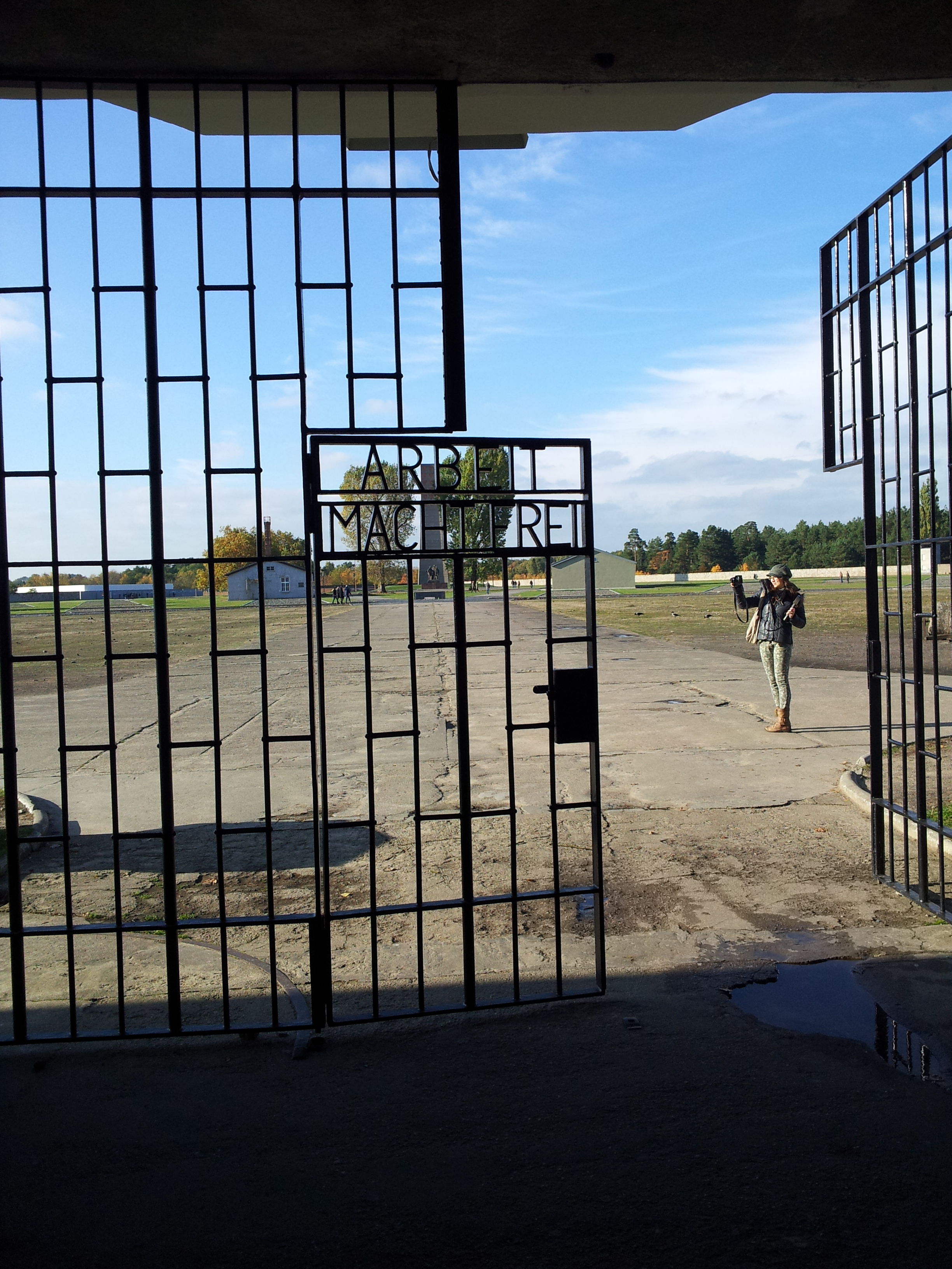 Sachsenhausen gate Arbeit macht frei